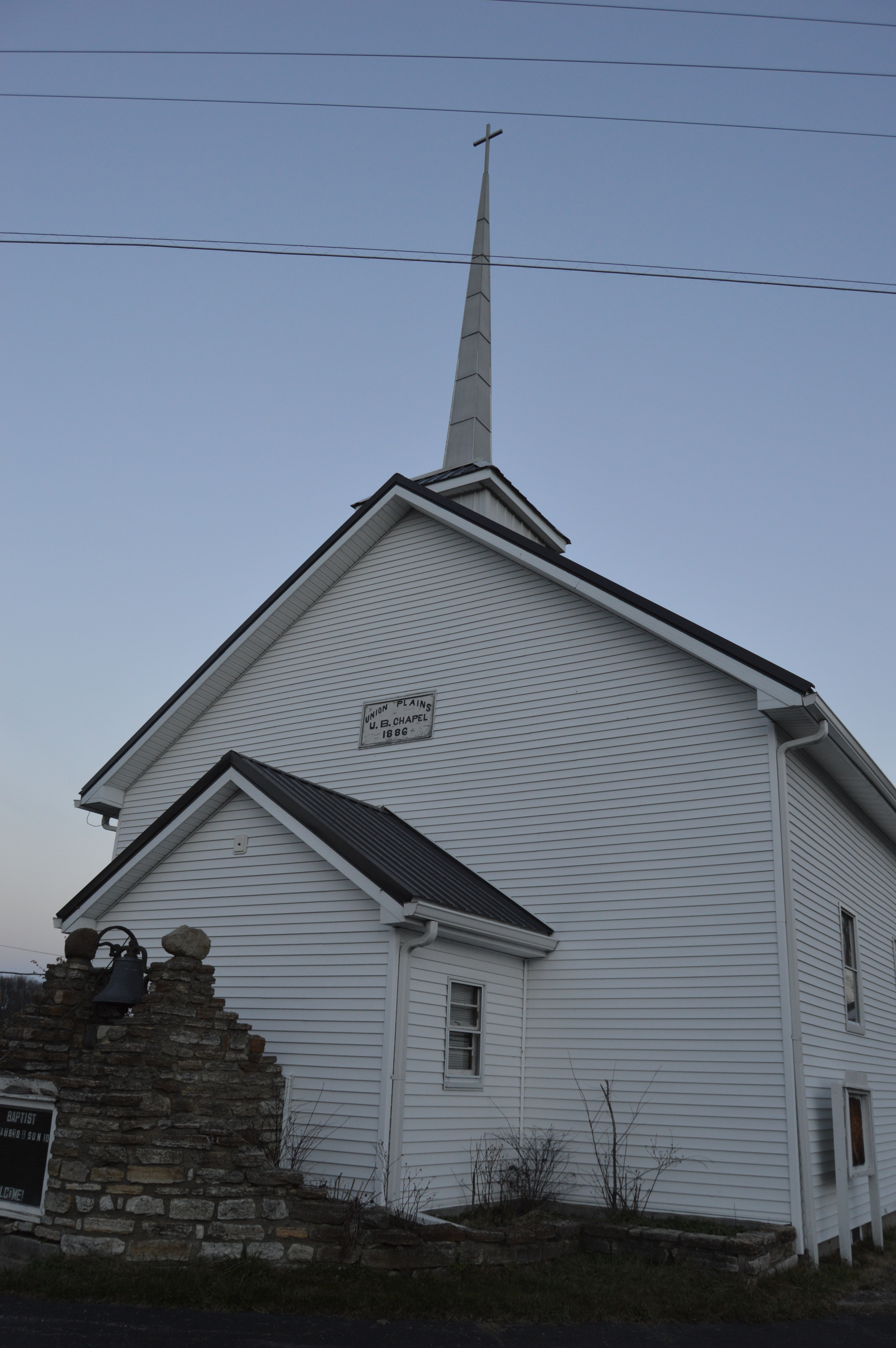 Front and southern side of the Union Plains United Baptist Church, located at 15892 U.S. Route 68 north of Mount Orab in Green Township, Brown County, Ohio, United States. It was built in 1886 for a local Church of Christ congregation.